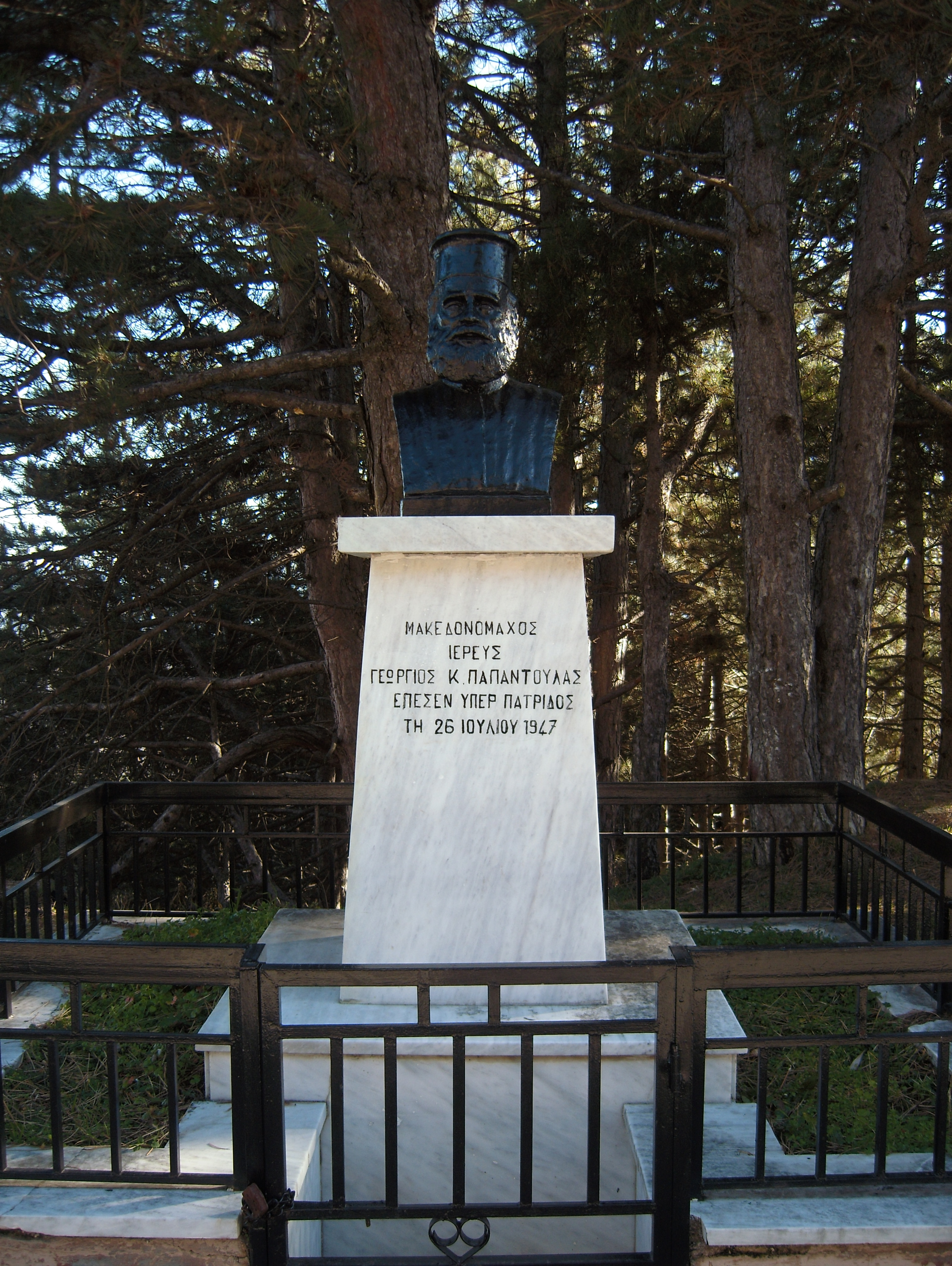 Klisoura